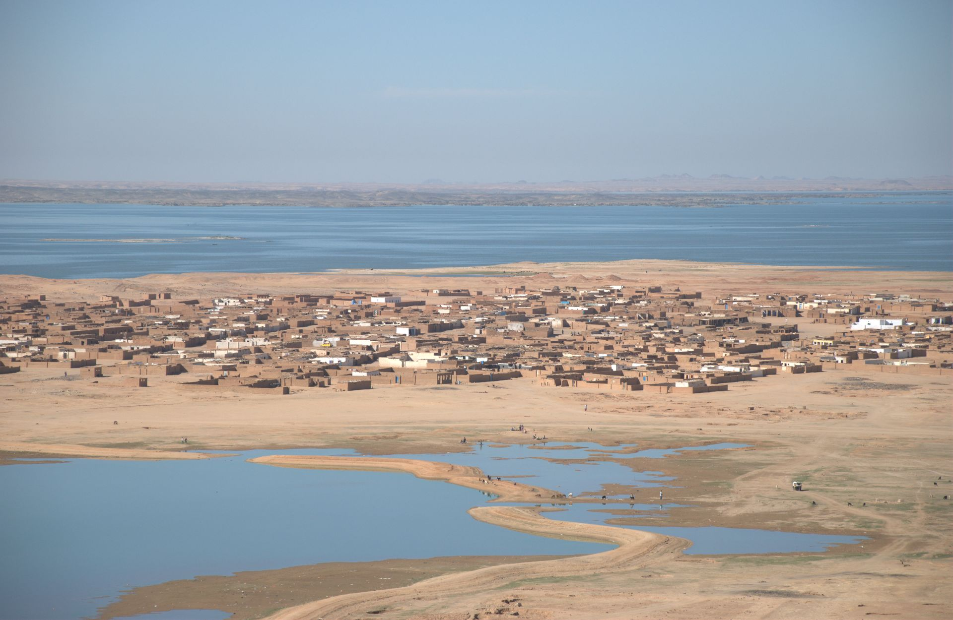 Wadi Halfa, Sudan, african quarter from hilltop